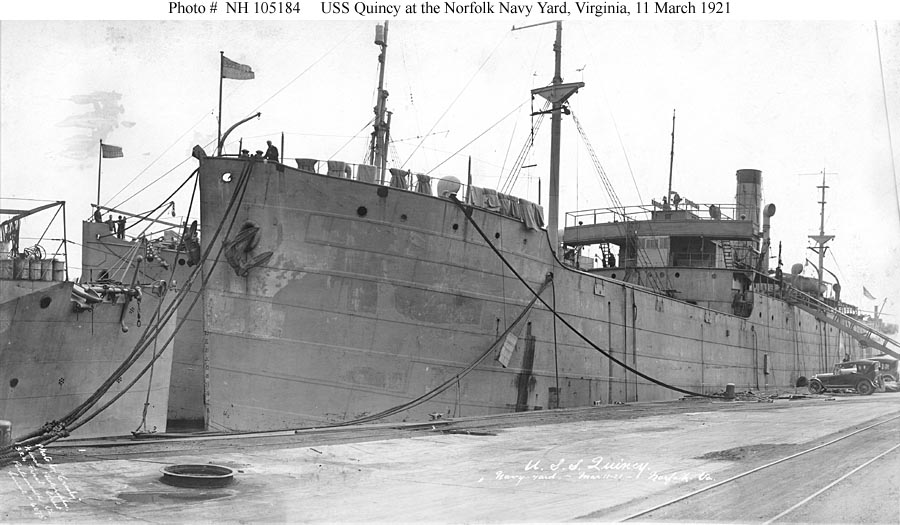 Quincy (AK-10) moored at Norfolk Navy Yard, Portsmouth, VA. 11 March 1921. Photographed by Crosby, "Naval Photographer", 324 First Street, Portsmouth, VA. US Navy photo # NH 105183 from the collections of the US Naval Historical Center, donation of the Portsmouth Naval Shipyard Museum, 1970.